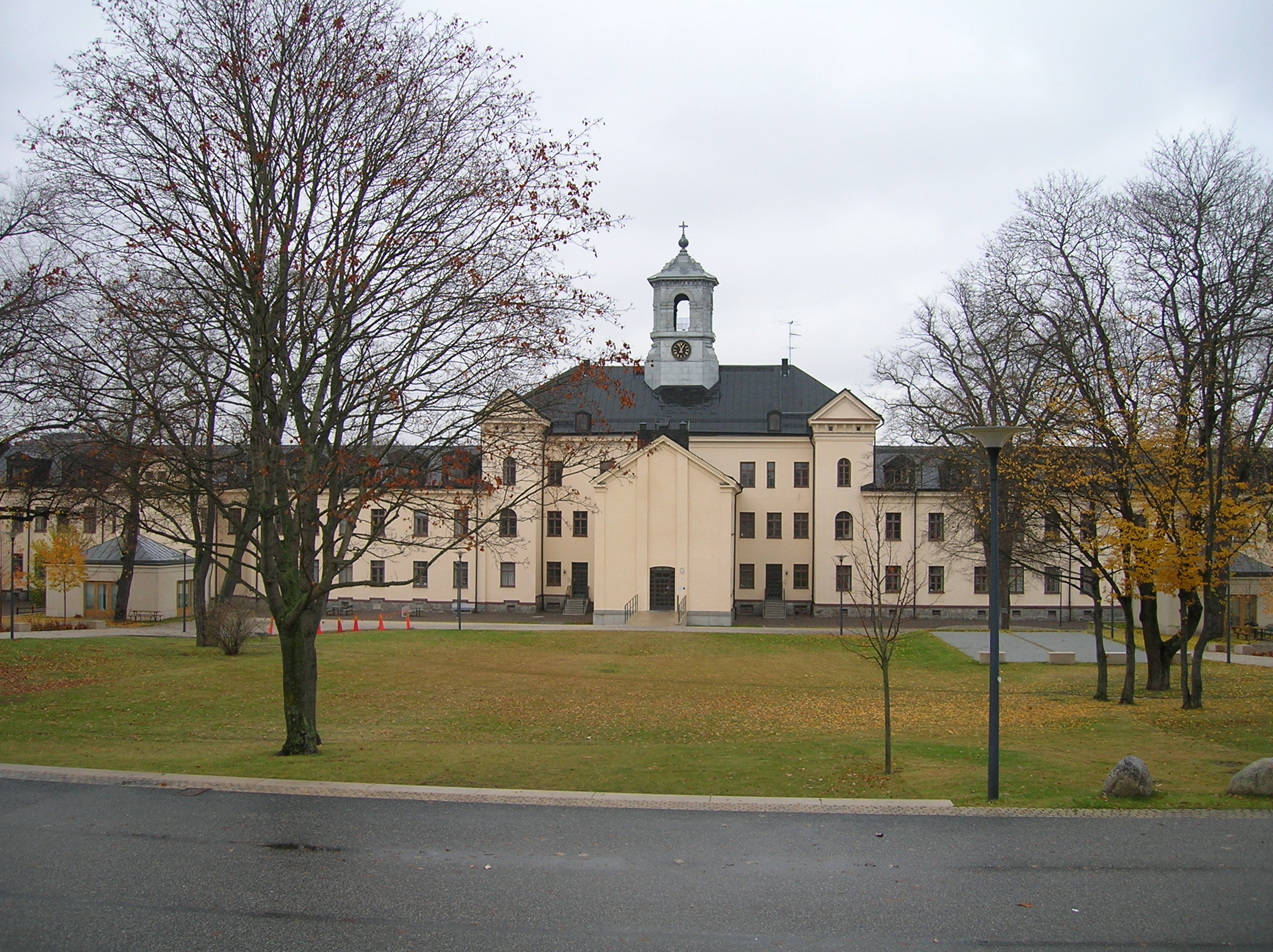 Konradsberg, from the beginning a mental hospital, now the main building of the lärarhögskolan, Marieberg, Stockholm municipality, Stockholm county, Sweden. Built 1855-1875. Architect: Albert Törnqvist. Rebuilt and extended for educational purposes 2001. Architect: Bjurström & Brodin.